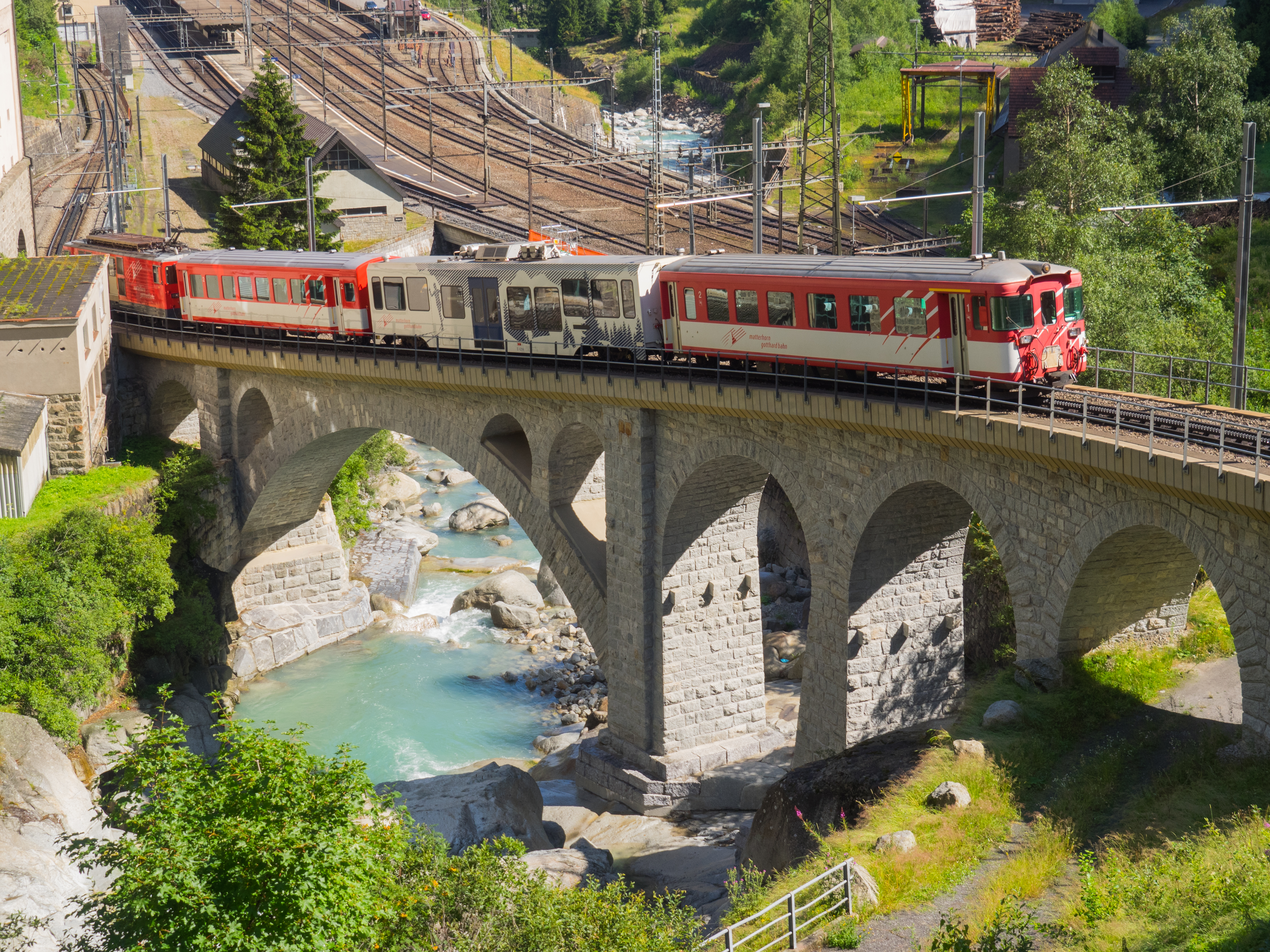 Matterhorn-Gotthard-Bahn Railroad Bridge over the Reuss River, Göschenen, Uri, Switzerland